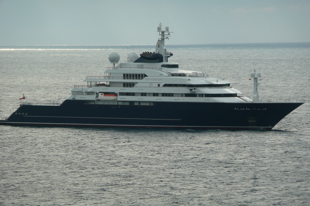 The Yacht Octopus anchored off Grand Cayman